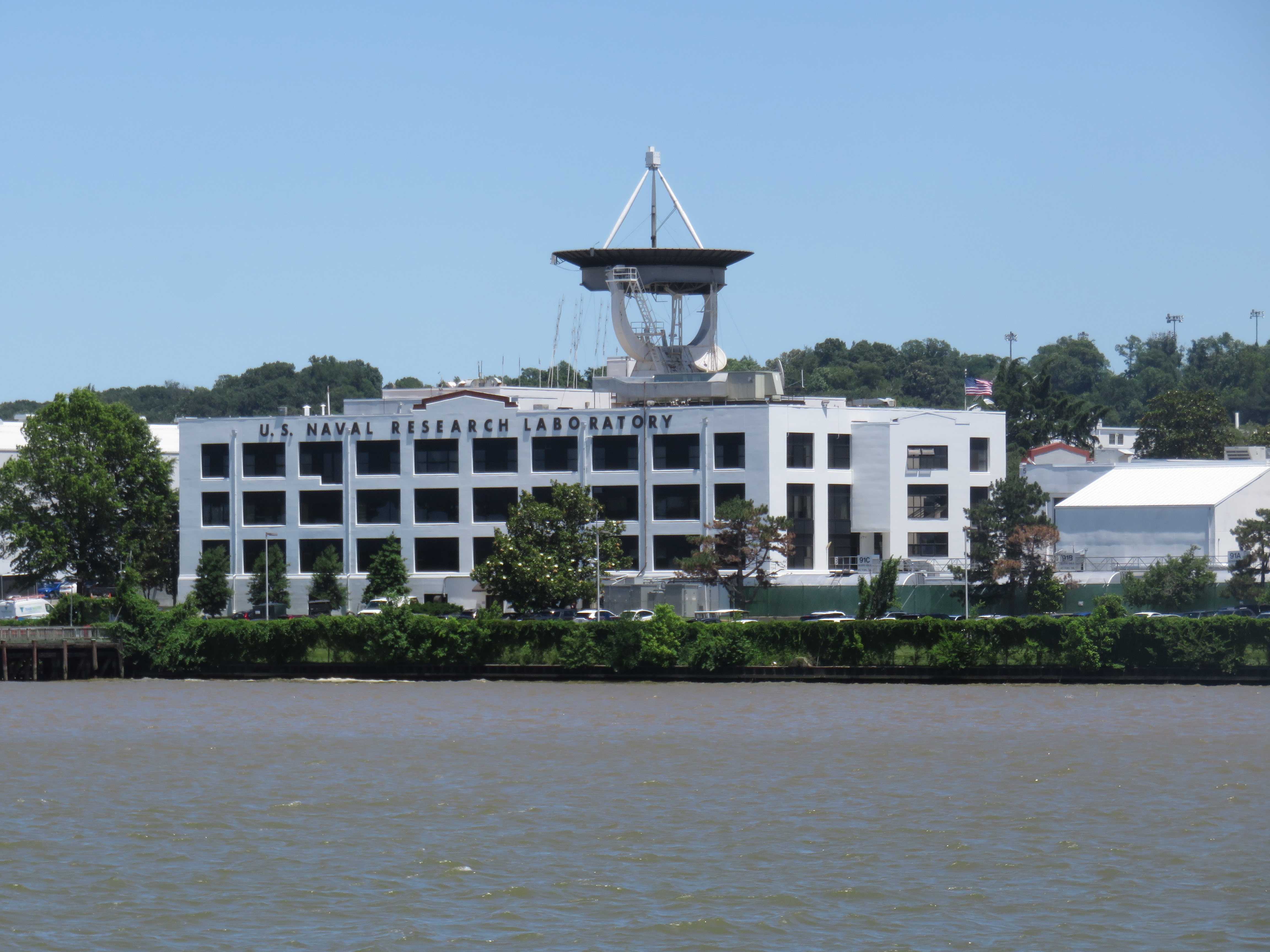 U.S. Naval Research Laboratory viewed from the Potomac water taxi in 2019